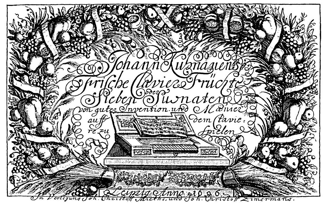 Title page of the first edition of Frische Clavier-Früchte by Johann Kuhnau.